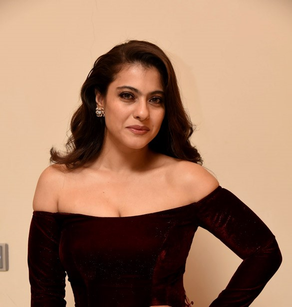 Kajol devgan